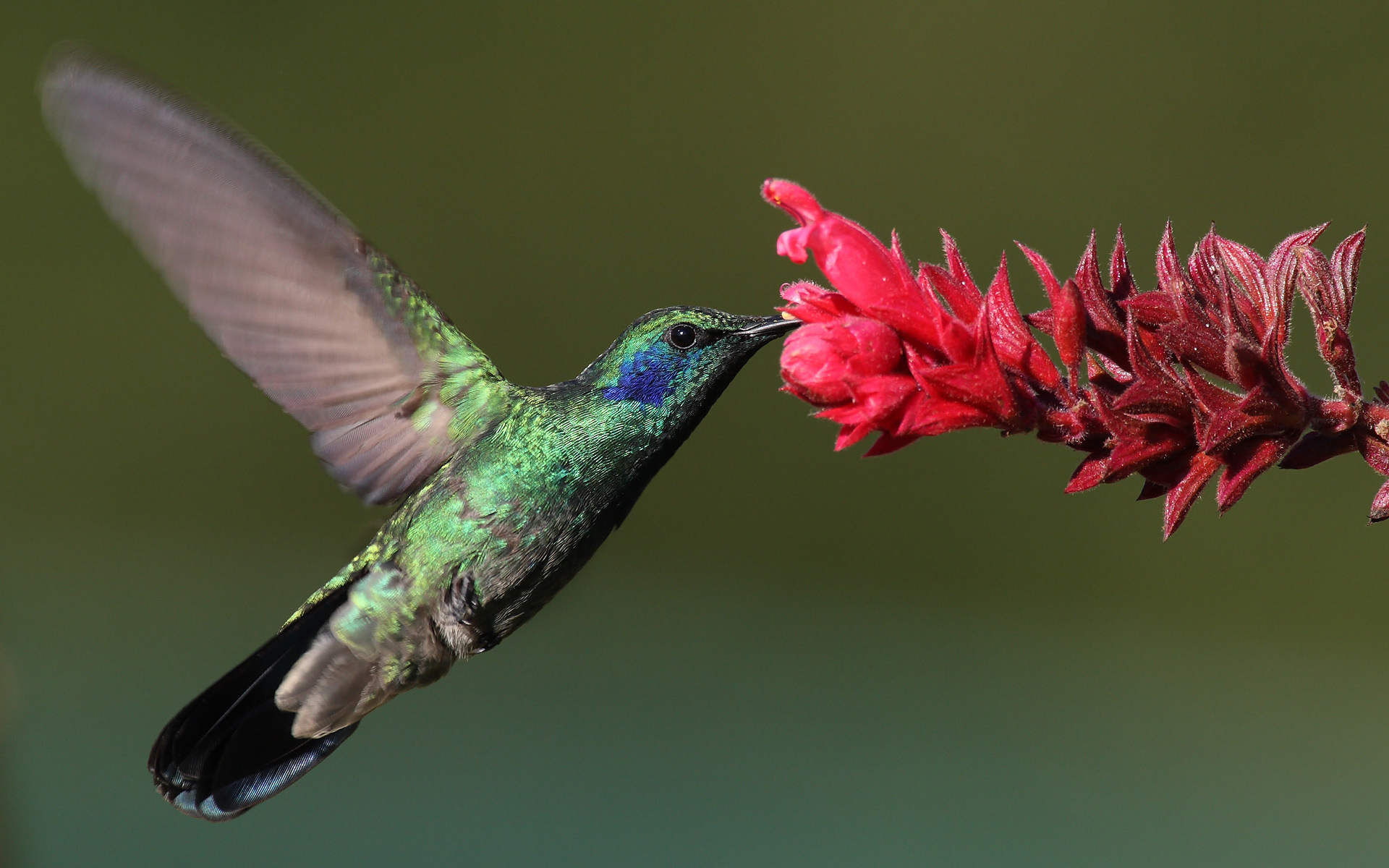 Green Violet-ear -- Finca Lerida, Boquete, Panama.